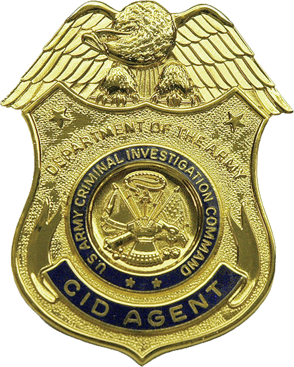 Image is similar, if not identical, to the United States Army Criminal Investigation Division badge. Made with Photoshop.